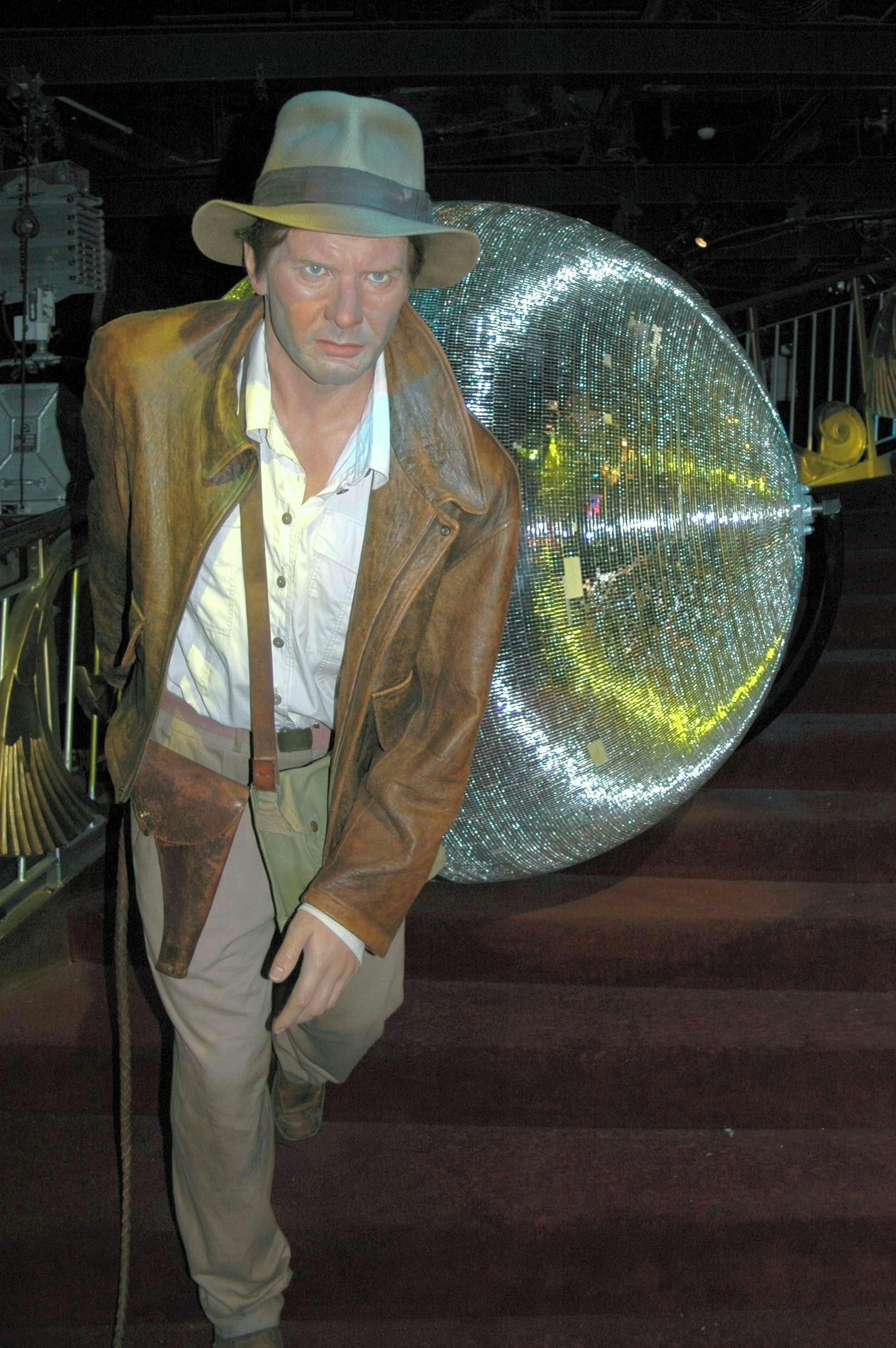 London, Madame Tussauds, Indiana Jones (Harrison Ford).